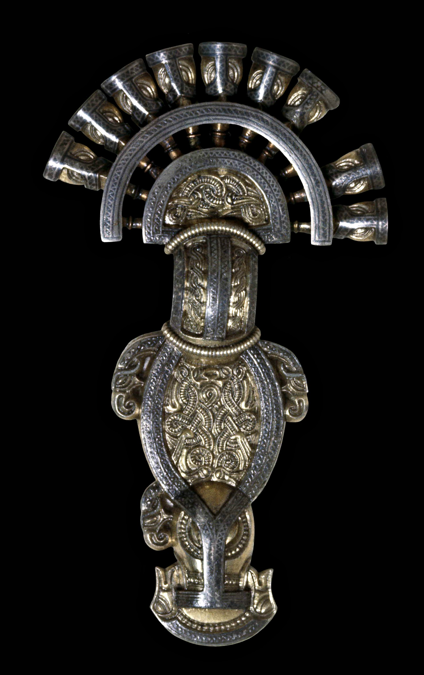 Migration period, Lombardic silver-gilt radiate-headed brooch. Small head-plate with eleven knobs in the form of animal masks applied to a separate outer bar on copper alloy balusters. Oval foot-plate with profiled bird head lappets and animal mask terminal. (from British Museum website)